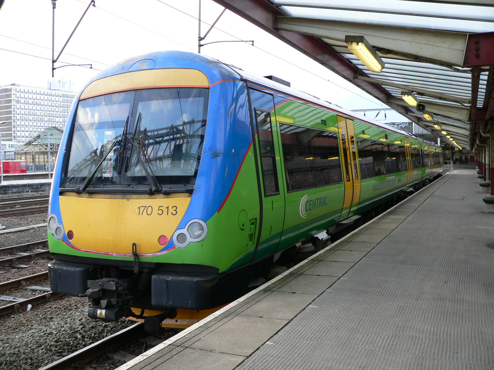 Central Trains Class 170 DMU 170513 at platform 2 of Crewe railway station.